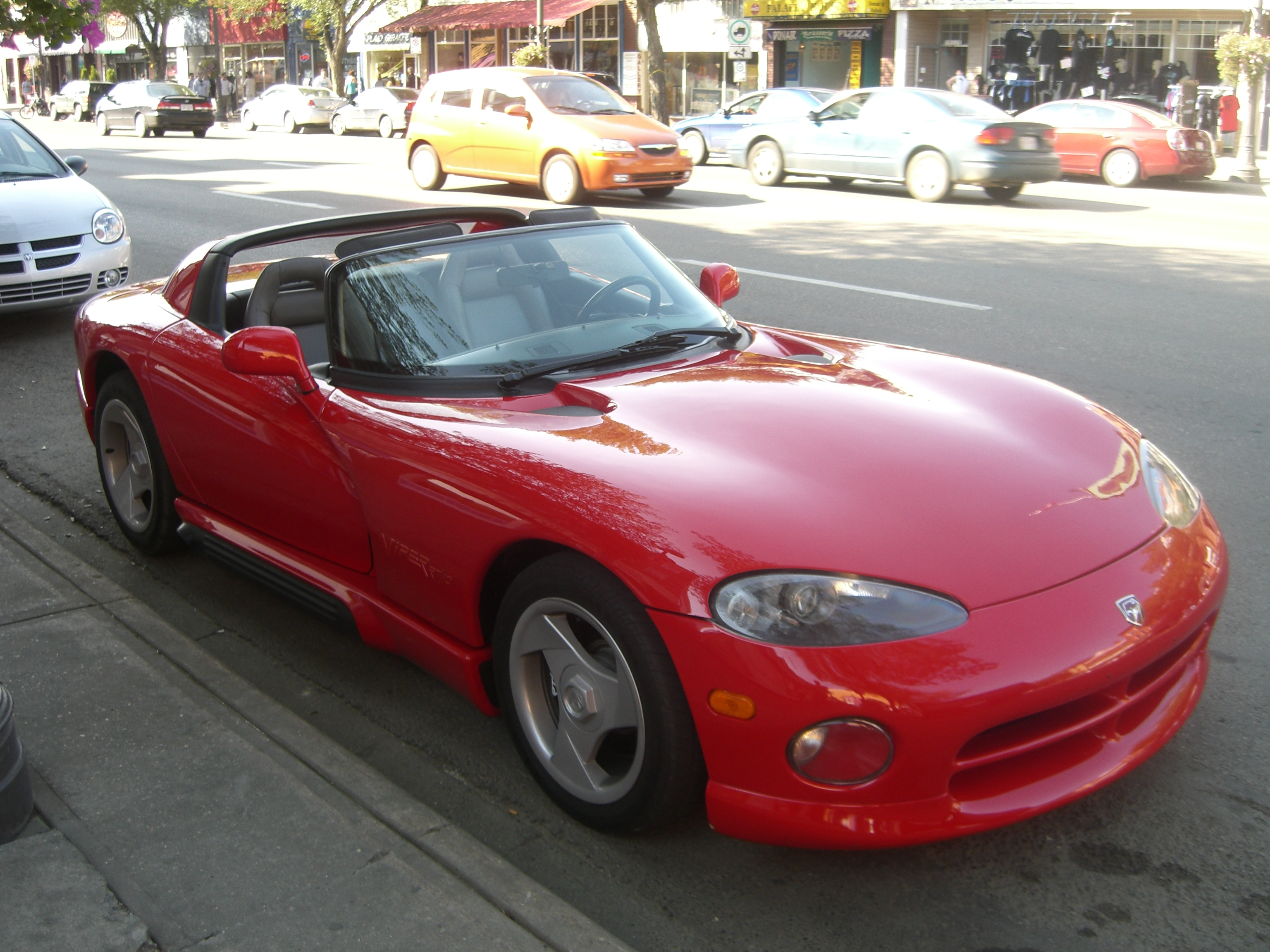 Photo By Myke Waddy, Sept 2006 Edmonton, Alberta, Canada.